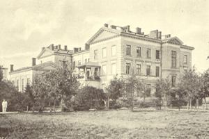 Jewish Hospital and synagogue in Warsaw